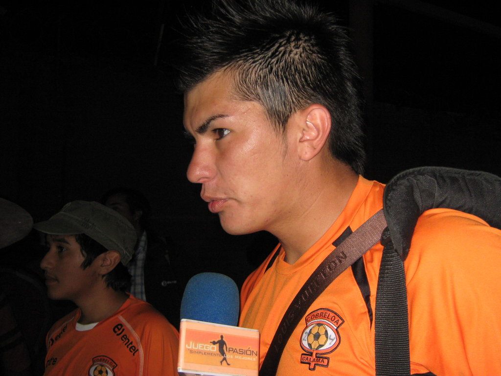 Nelsón Saavedra in Cobreloa 2011 season